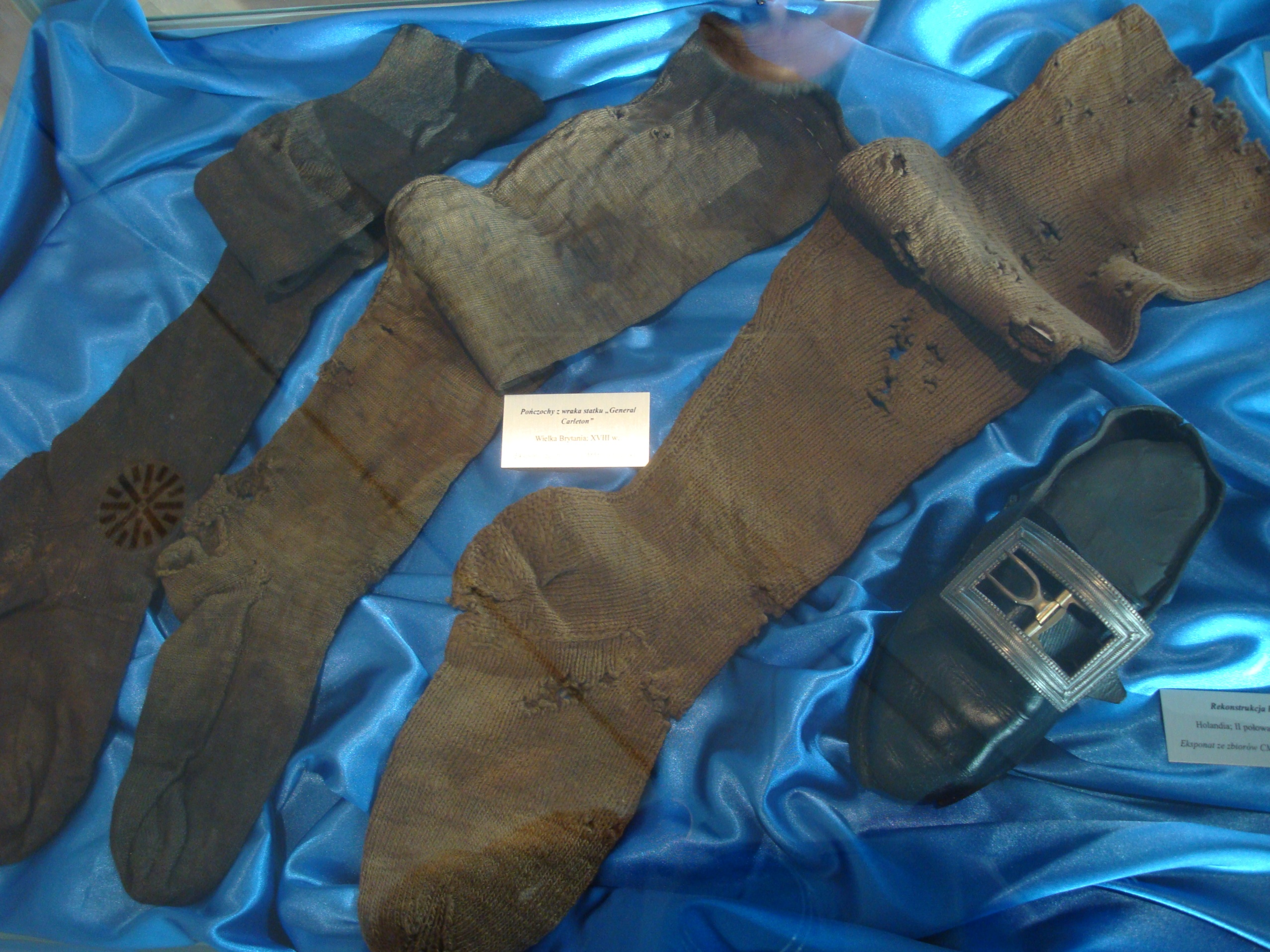 Items recovered from wreck of vessel General Carleton, sunk near Polish coast in 1785. Items were well preserved in tar from ship's cargo